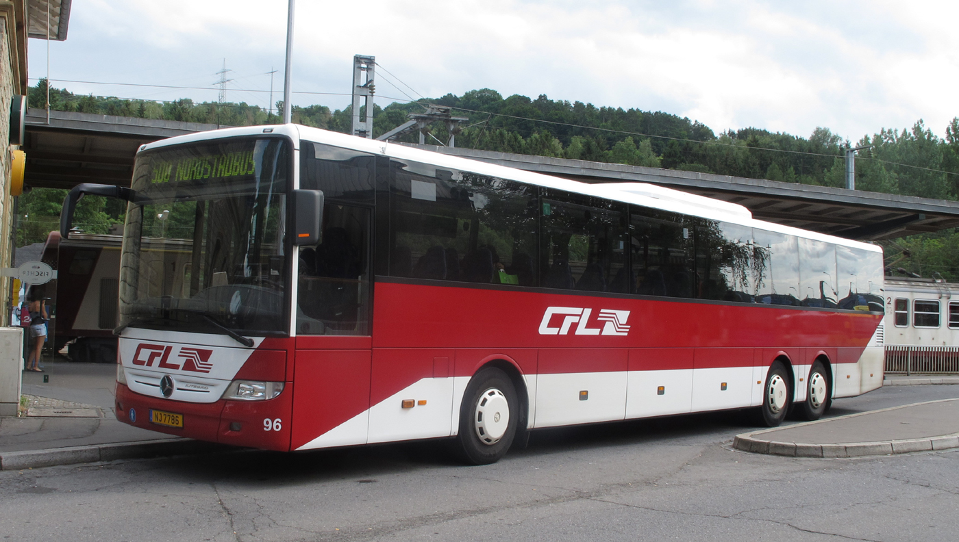 CFL-Bus (RGTR) of the line 500 at the station in Ettelbruck, Luxembourg